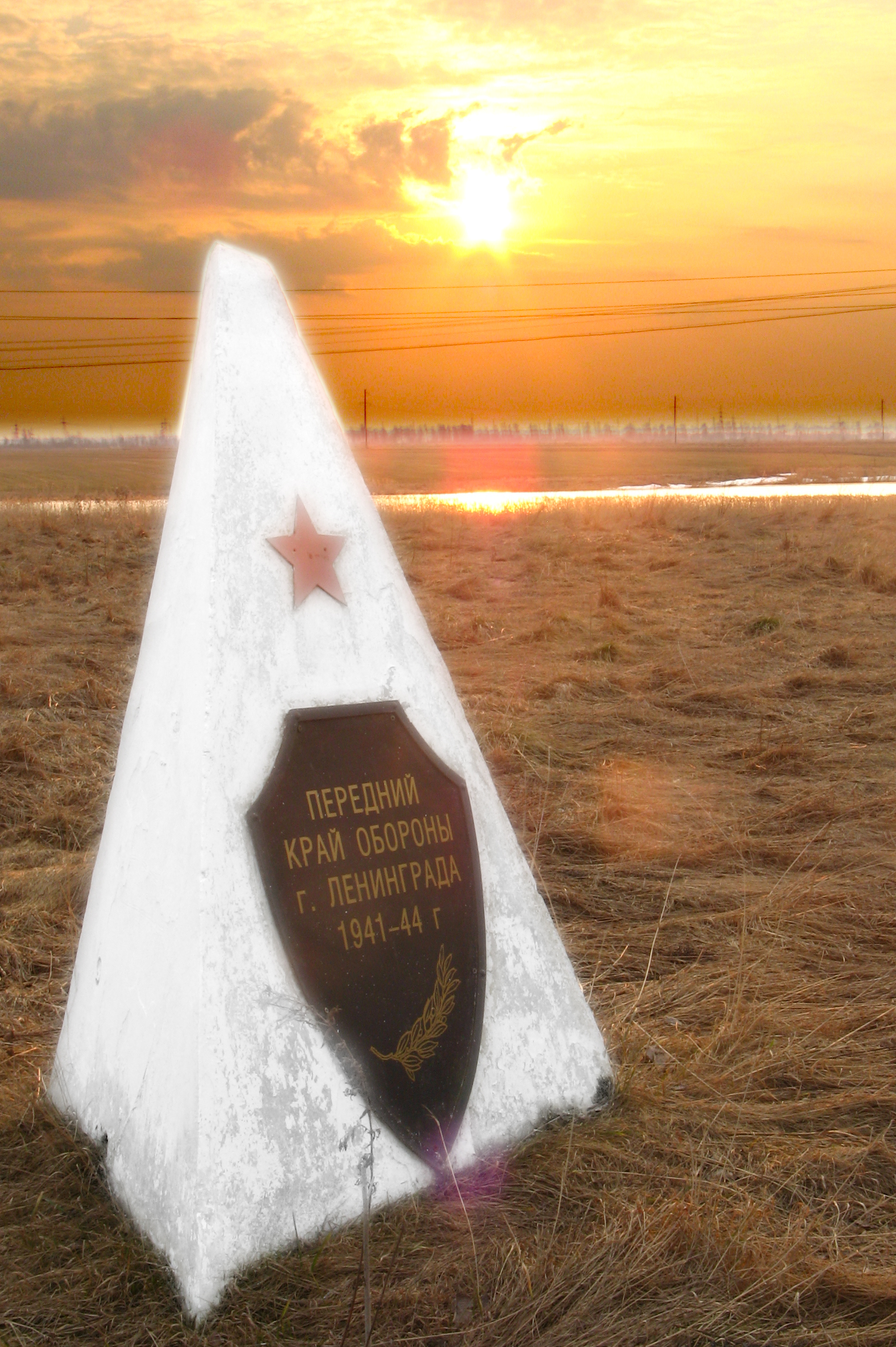 Anti-tank obstacle and plaque with text: "Leading edge of defence of the Leningrad. 1941-44 years", Tosnensky District, Russia.